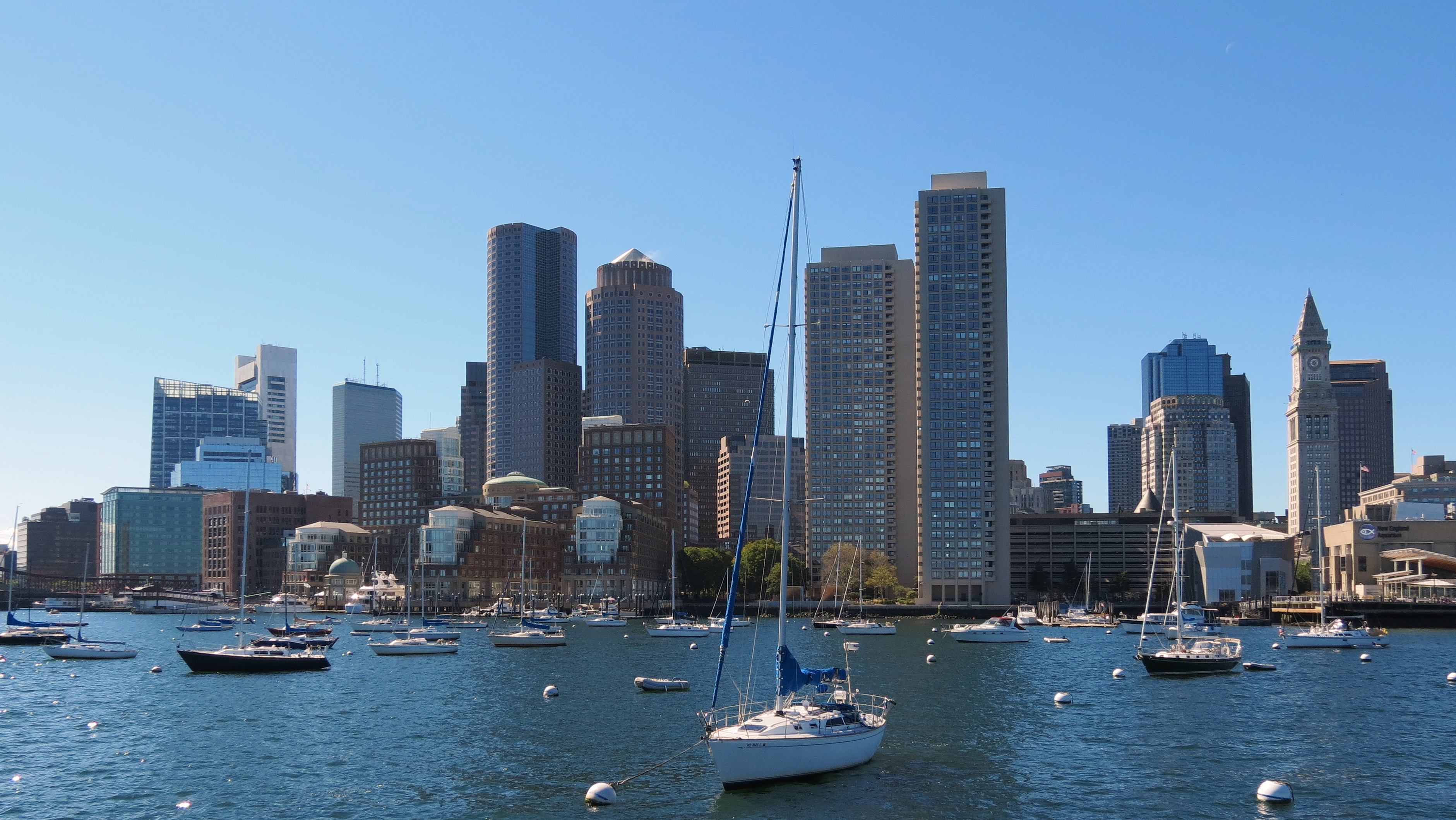 Boston from the Harbour, Massachusetts, United States